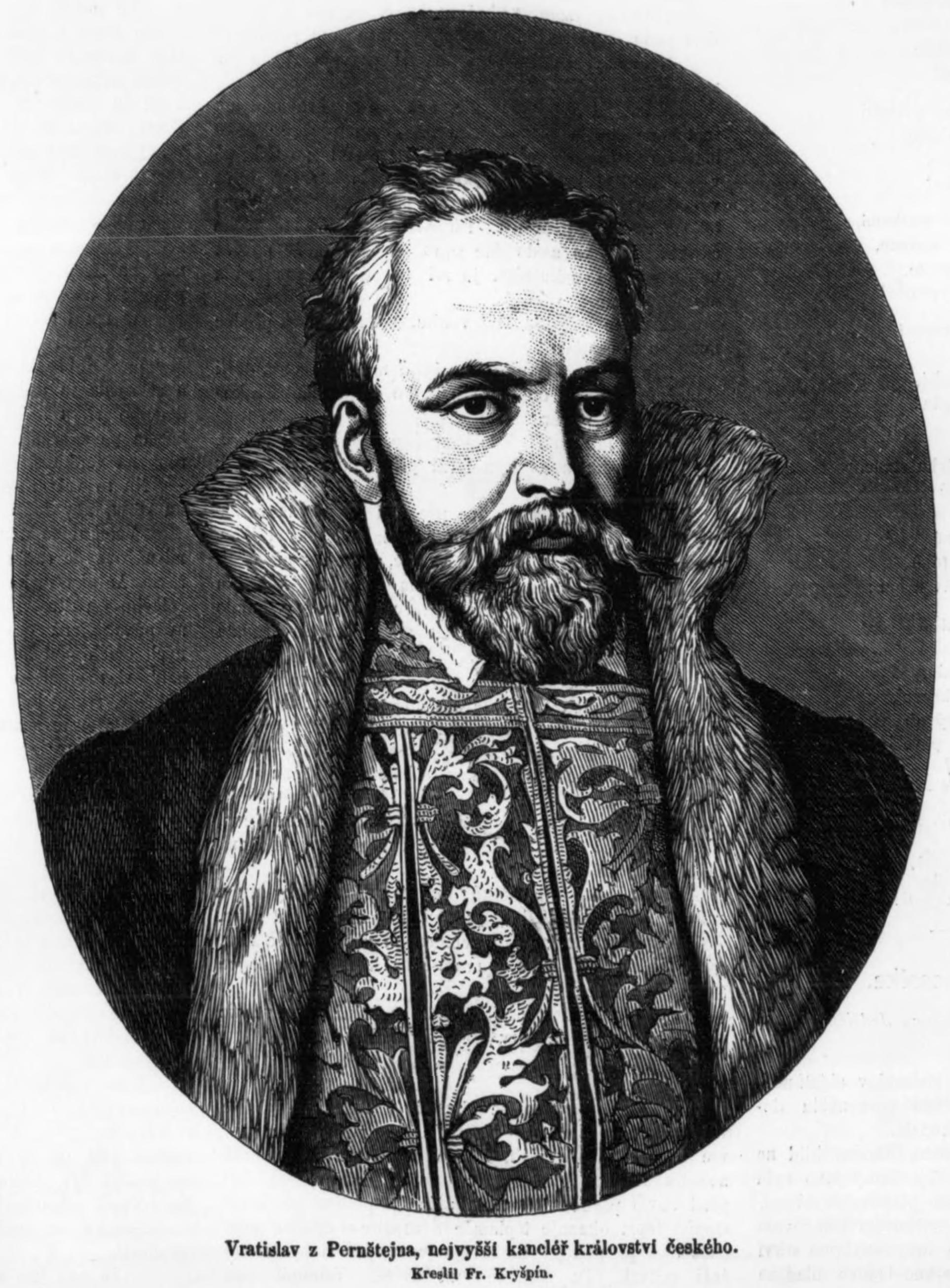 Portrait of Vratislav II. z Pernštejna (1530 - 1582), Czech nobleman and diplomat.